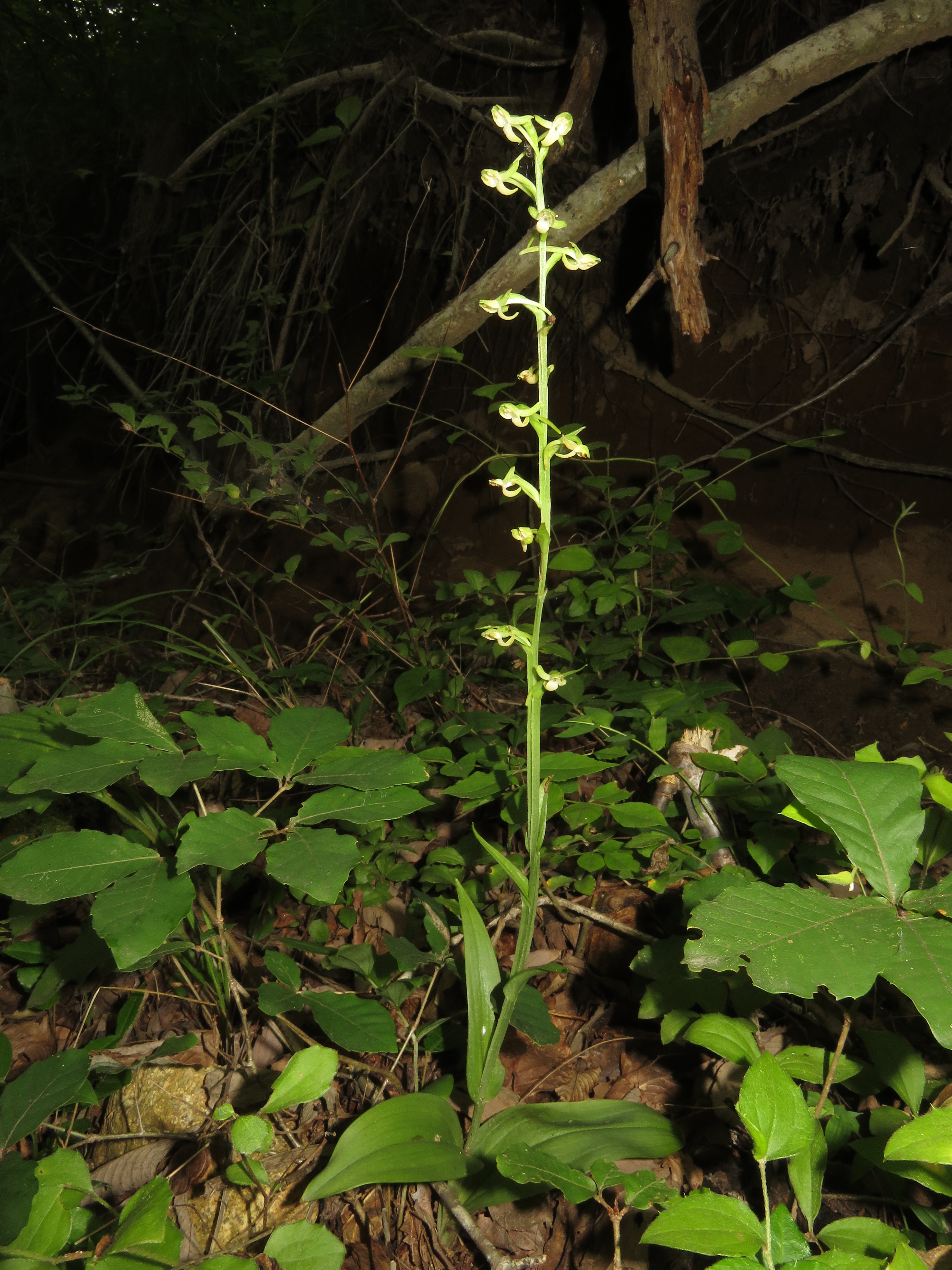 Platanthera minor, Hama-dori area, Fukushima pref., Japan